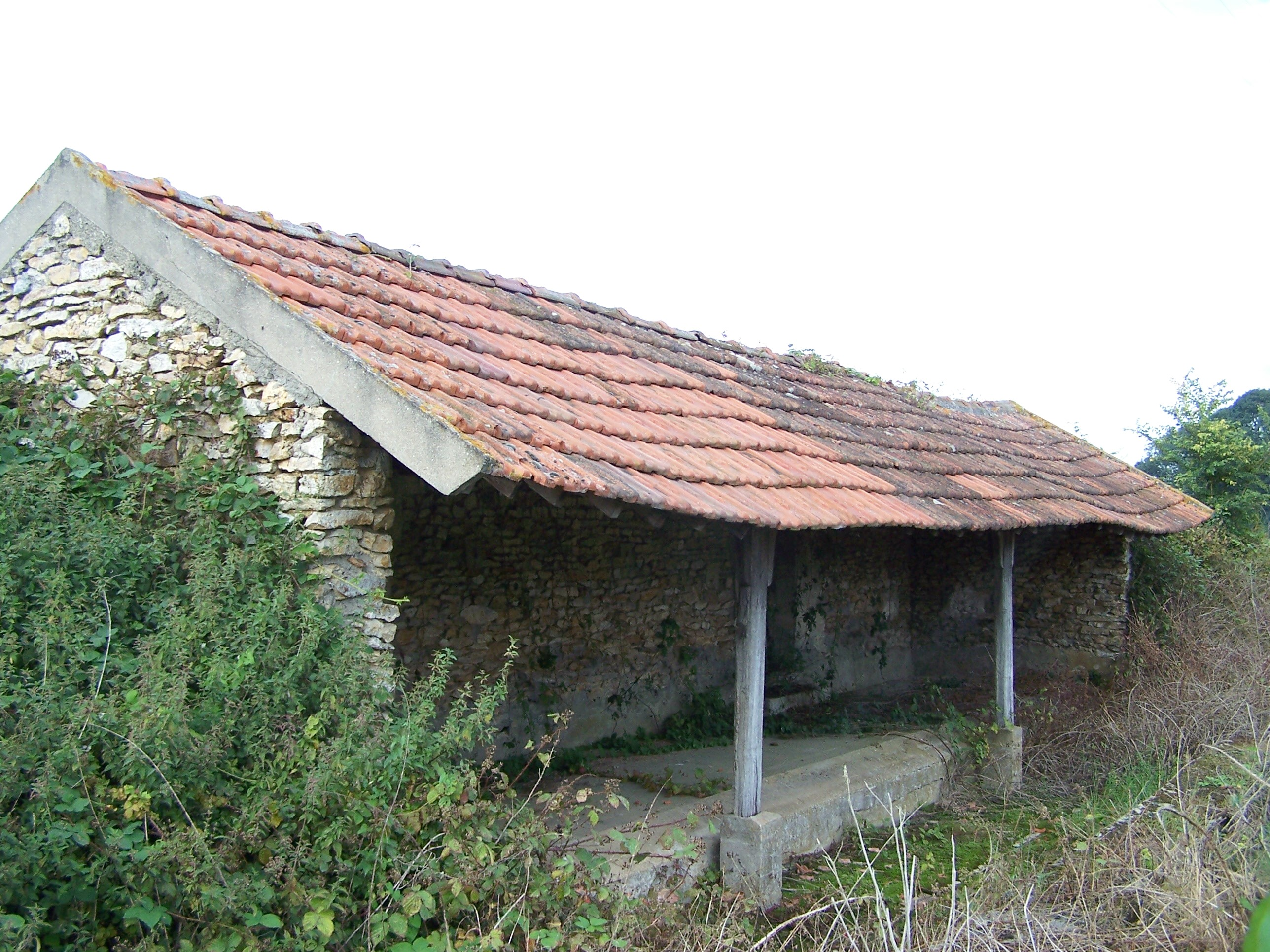 Wash house of Balaincourt in Villiers-le-Mahieu (Yvelines, France)